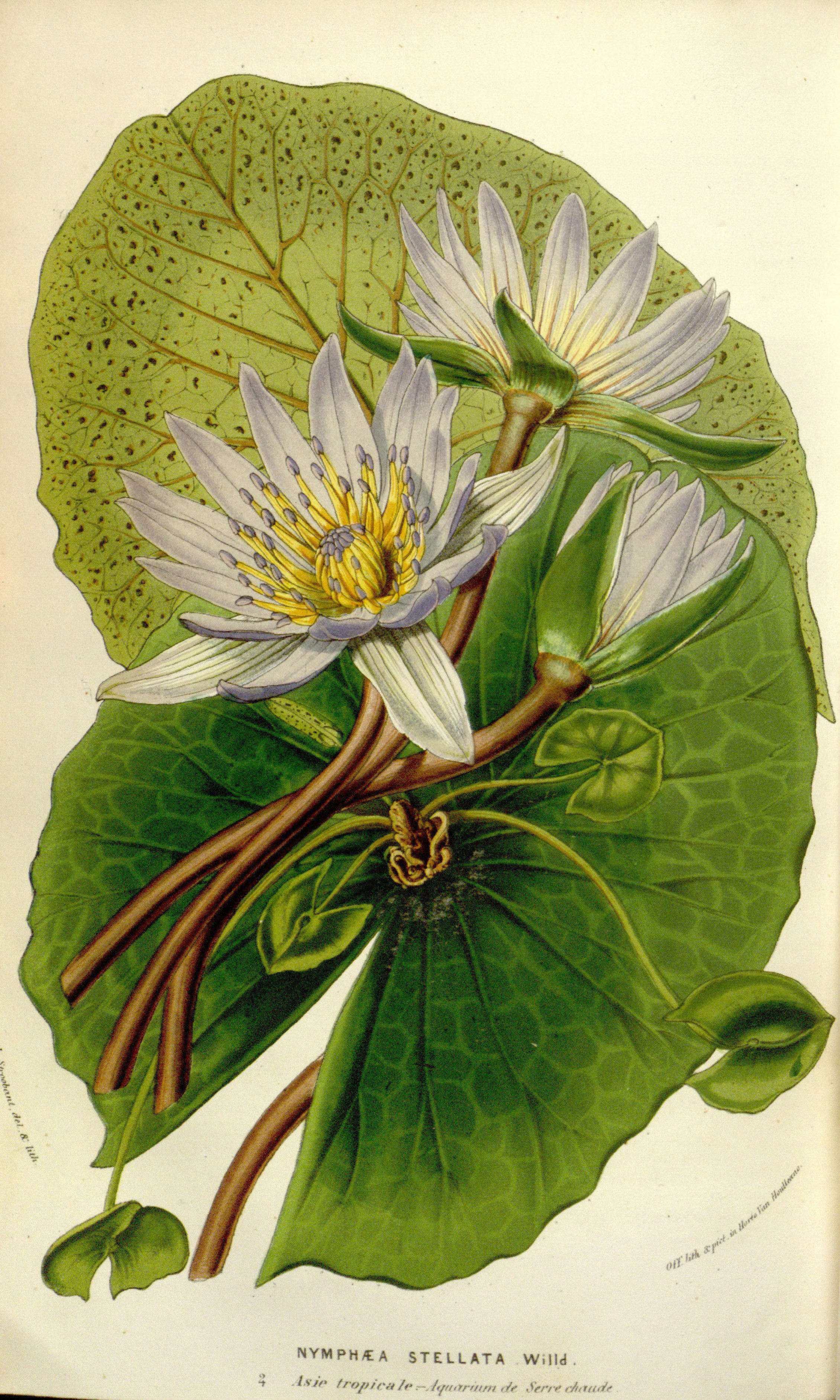 Nymphaea nouchali